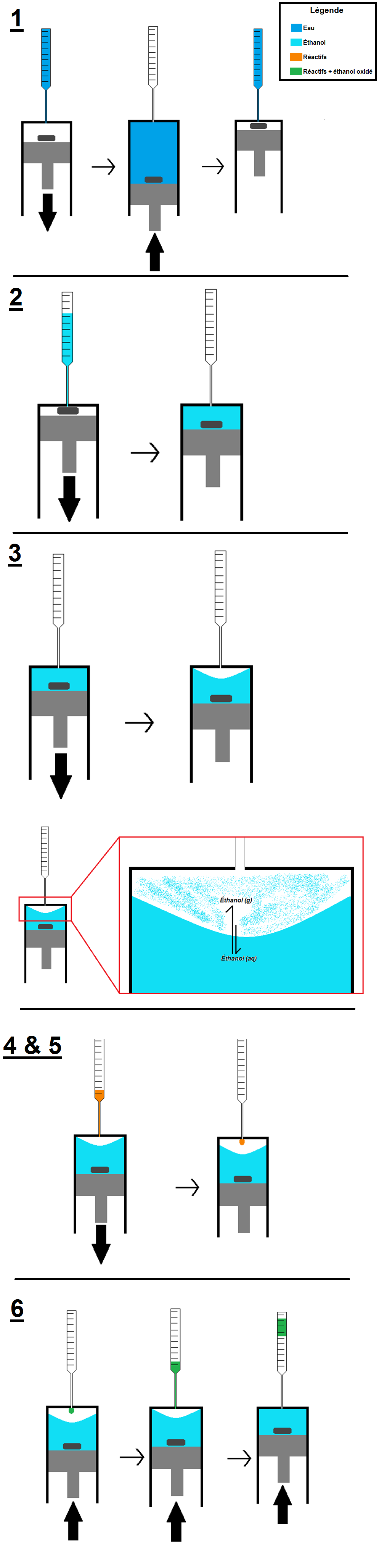 Schéma de montage d'une extraction liquide par simple goutte par espace de tête (HS-SDME) pour analyser la quantité d'éthanol trouvée dans un échantillon de vin commercial